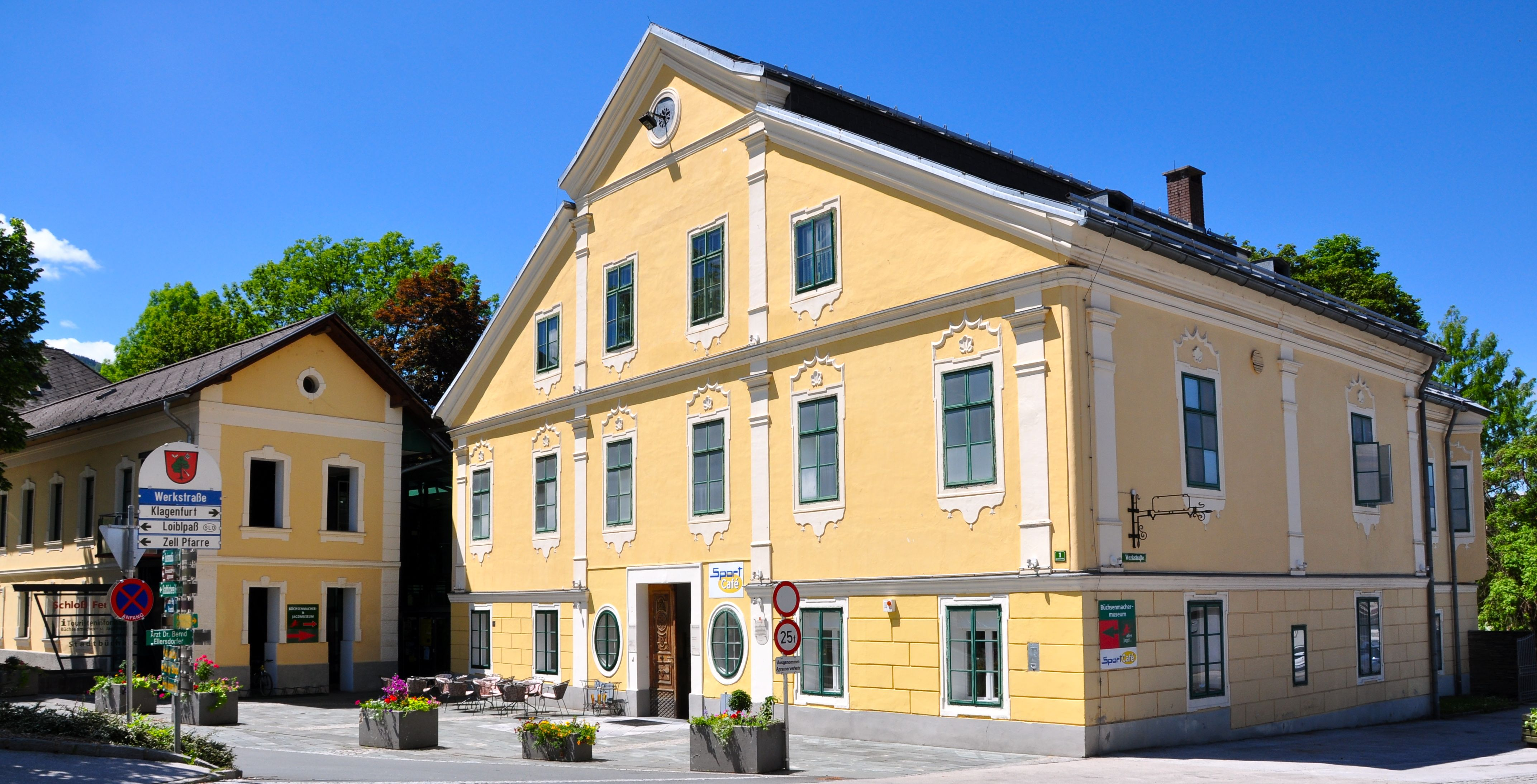 Castle on Sponheimer Square #1, municipality Ferlach, district Klagenfurt Land, Carinthia, Austria, EU